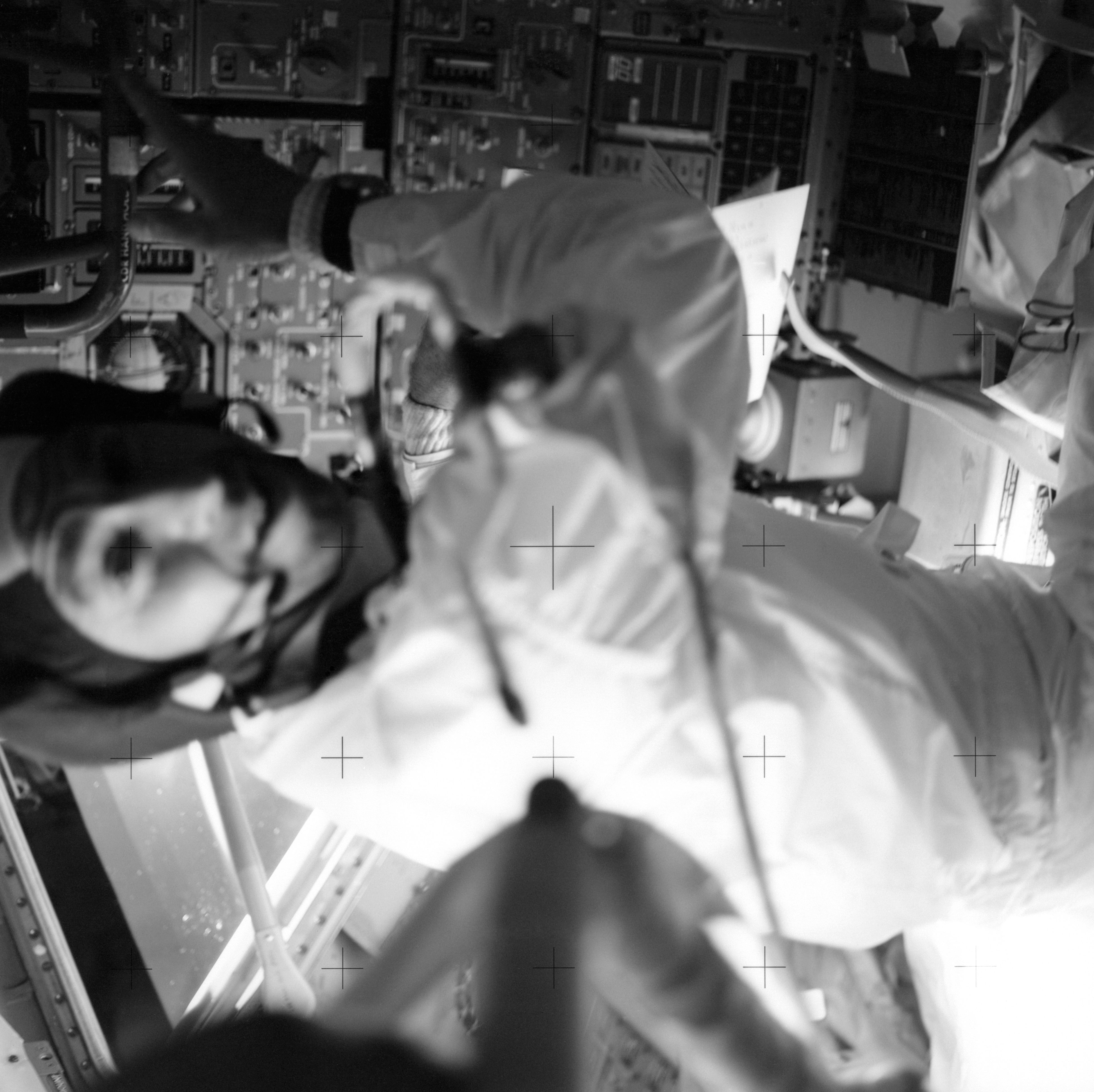 Astronaut James A. Lovell Jr., commander, is pictured at his position in the Lunar Module (LM). The Apollo 13 crew of astronauts Lovell; John L. Swigert Jr., command module pilot; and Fred W. Haise Jr., lunar module pilot, relied on the LM as a "lifeboat". The dependence on the LM was caused by an apparent explosion of oxygen tank number two in the Service Module (SM). The LM was jettisoned just prior to Earth re-entry by the Command Module (CM).